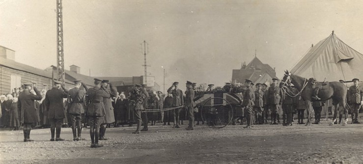 John McCrae's Funeral Procession to Wimereux, France.